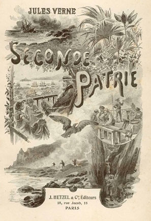 Ilustration from Georga Rouxe to novel Jules Verne "Second Fatherland".